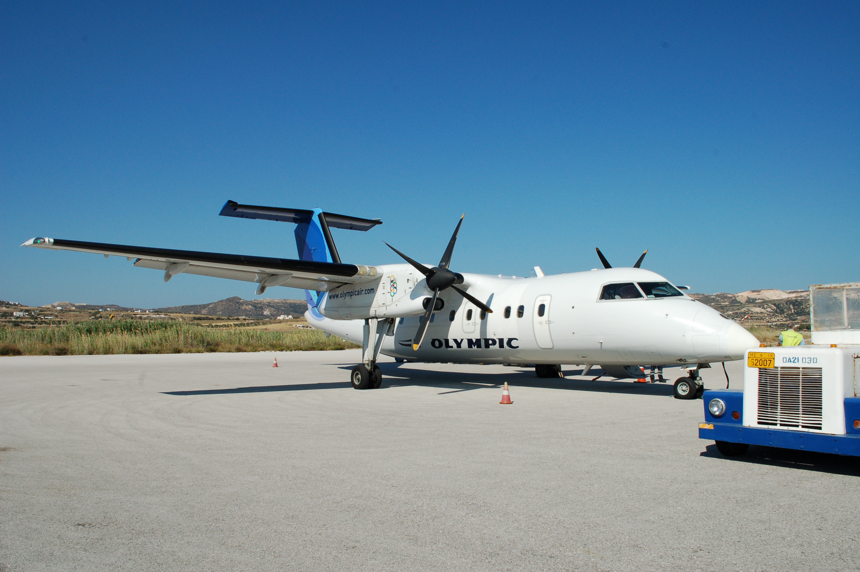 Olympic Air De Havilland Canada DHC-8-102 Dash 8 at Milos airport.